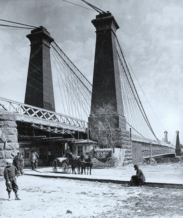 Photograph, Suspension bridge, Niagara, ON, 1869, William Notman (1826-1891), Silver salts on paper mounted on paper - Albumen process - 25 x 20 cm